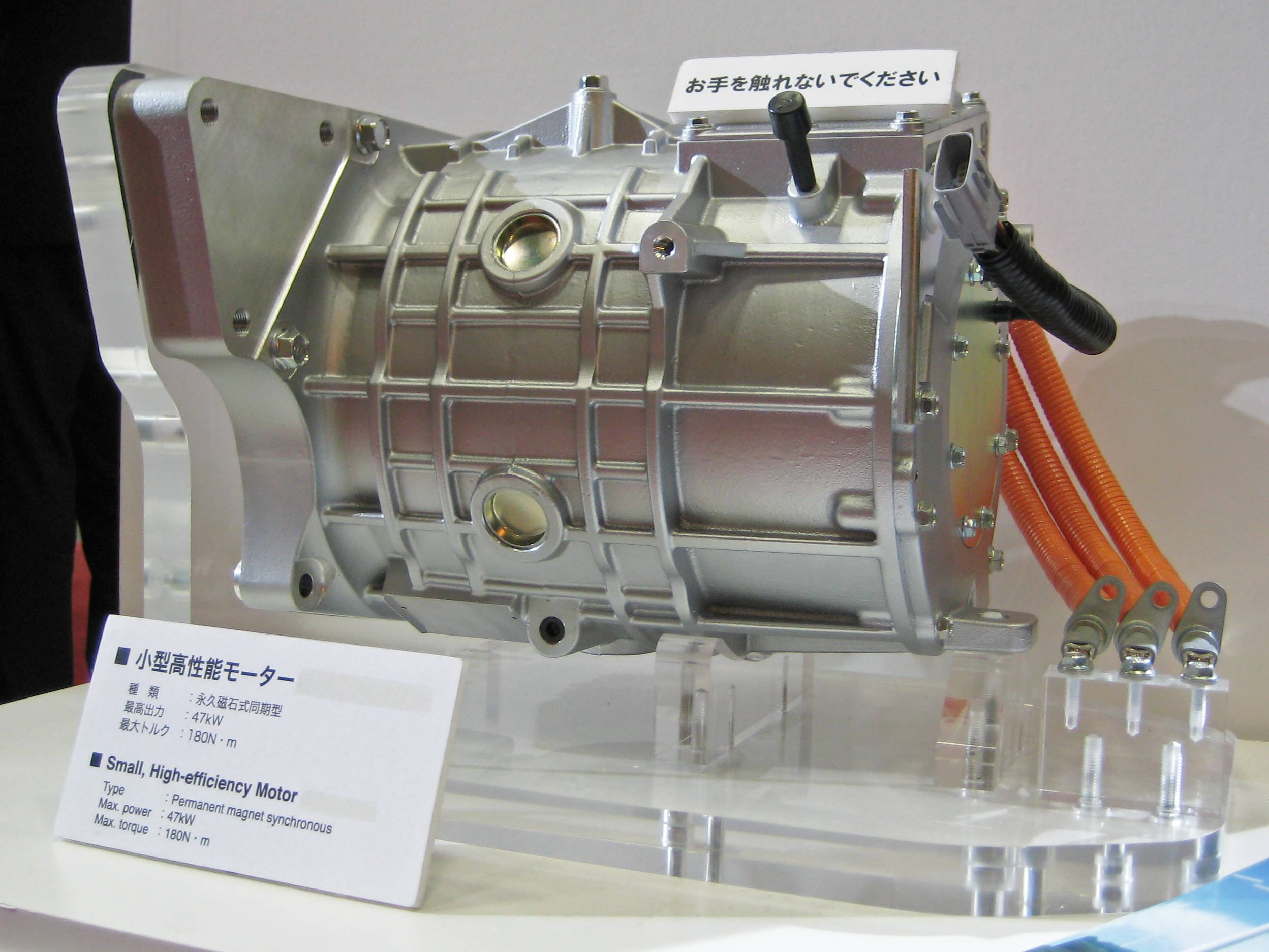 Meidensha Small, High-efficiency Motor for Mitsubishi i MiEV in Eco-Products 2008.